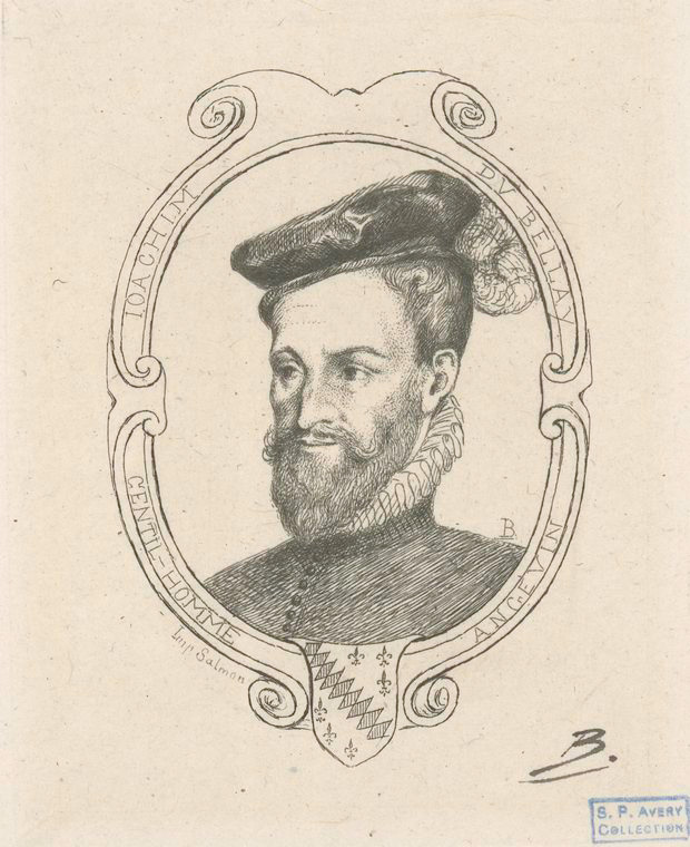 Joachim du Bellay, gentilhomme angevin [portrait frontispice].